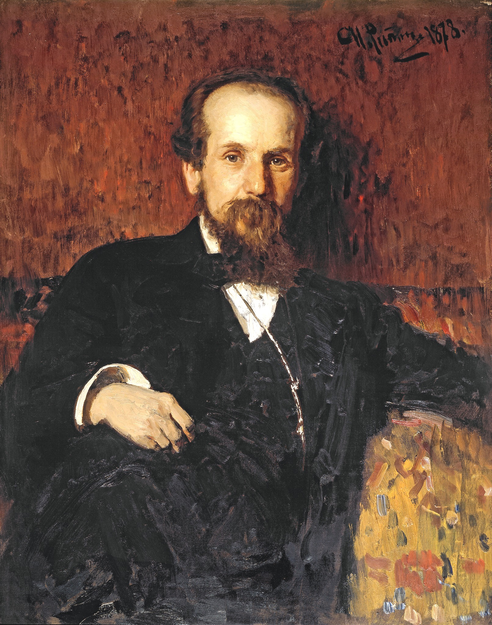 Portrait of the painter Pavel Petrovich Chistyakov.